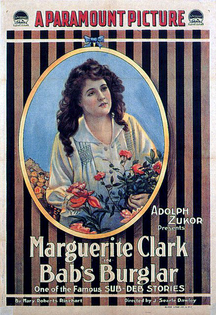 Poster for the 1917 film Bab's Burglar with Marguerite Clark.